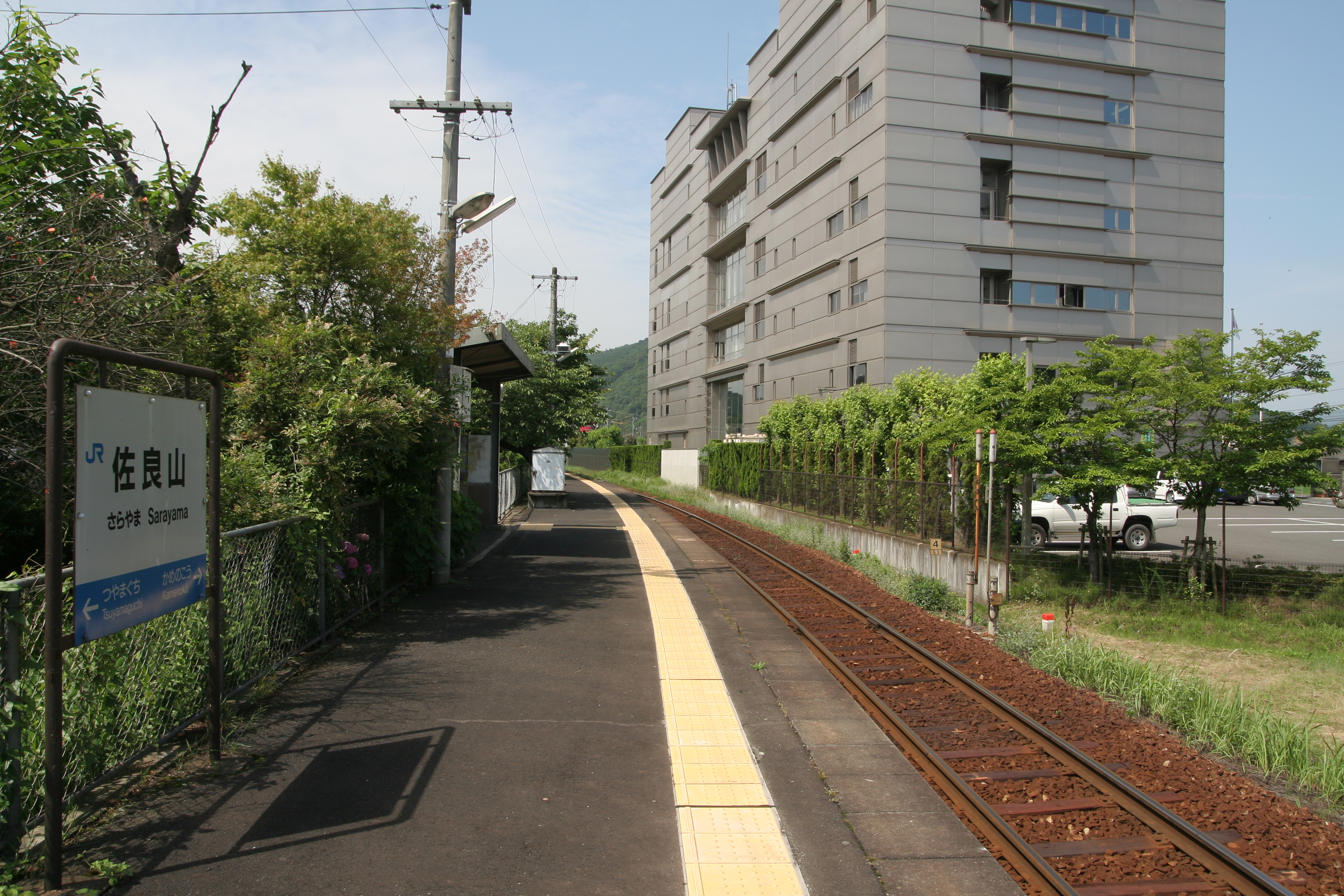 West Japan Railway Tsuyama Line Tsuyamaguchi station enclosure